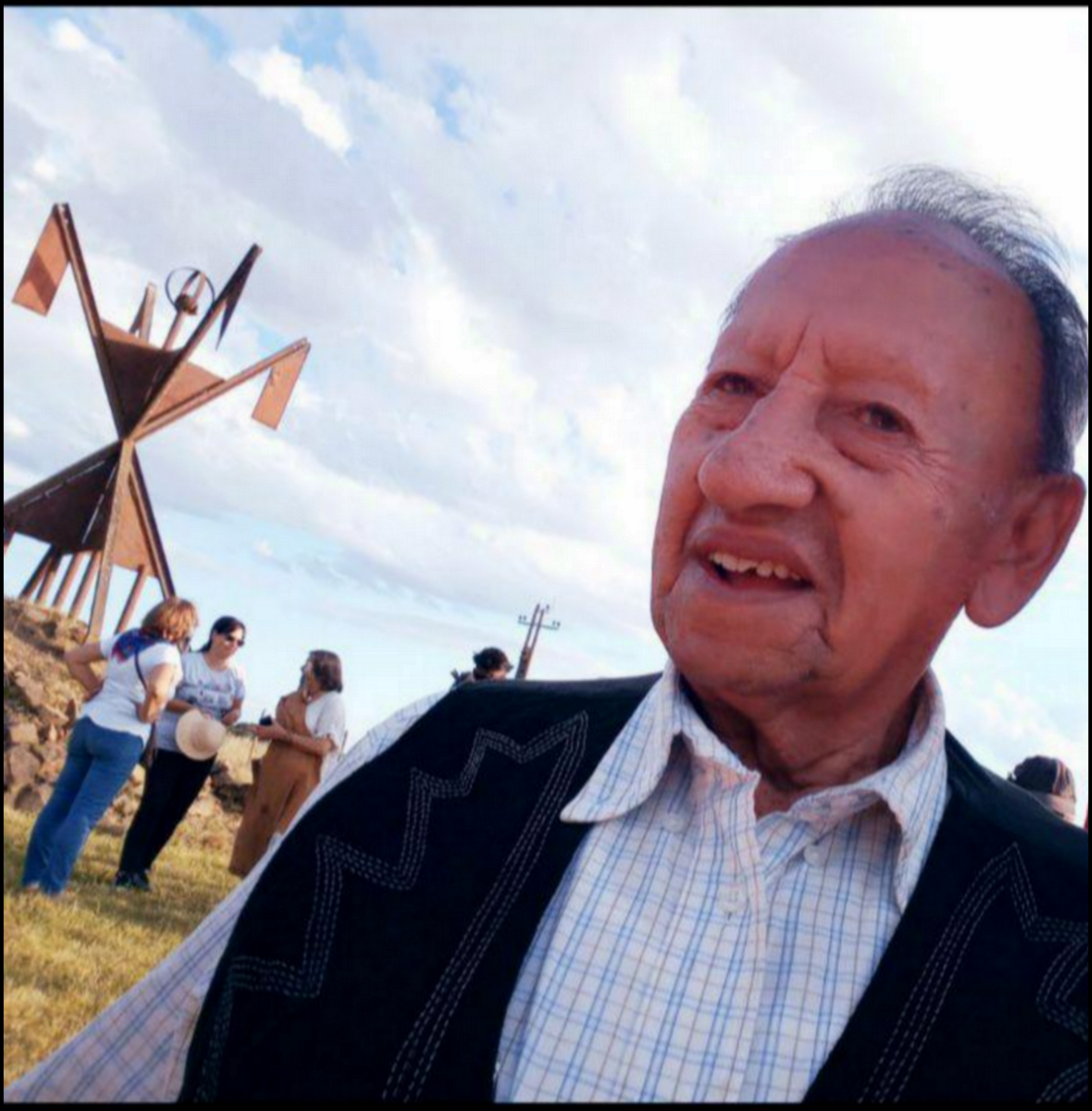 Blas Wilfredo Omar Jaime, native speaker of the Chaná language in Salsipuedes, in front of the Monument to the Slaughter near the Town of Tiatucurá. The visit happened at the request of, and by organization and invitation of the Council of the Charrúa Nation - CONACHA. "Don Blas" participated in the already traditional camp, in tribute to those killed in the Salsipuedes Massacre that is carried out annually by the Charrúas Organizations, with concurrents from the 3 countries in which this ethnic group is present. It is a tradition to spend at least one night in the place, as a way of homage and cultural revitalization of the Charrúa ancestral communitary life.